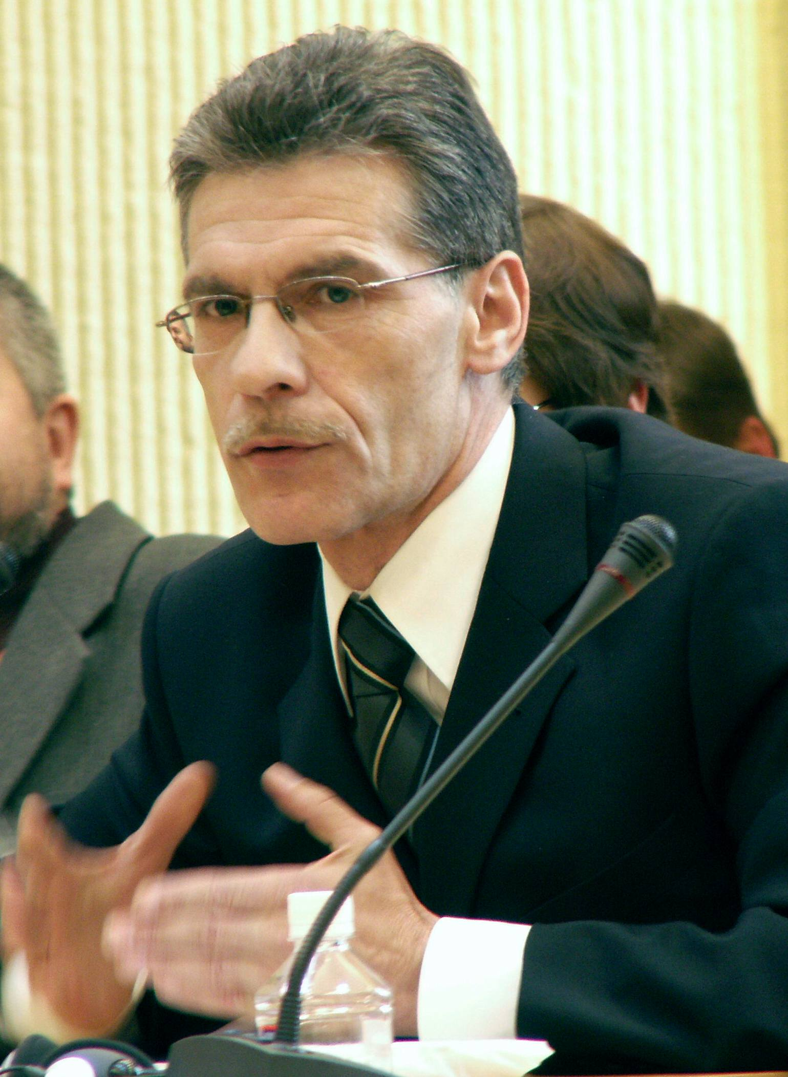 Jonas Korenka, member of Seimas of Lithuania